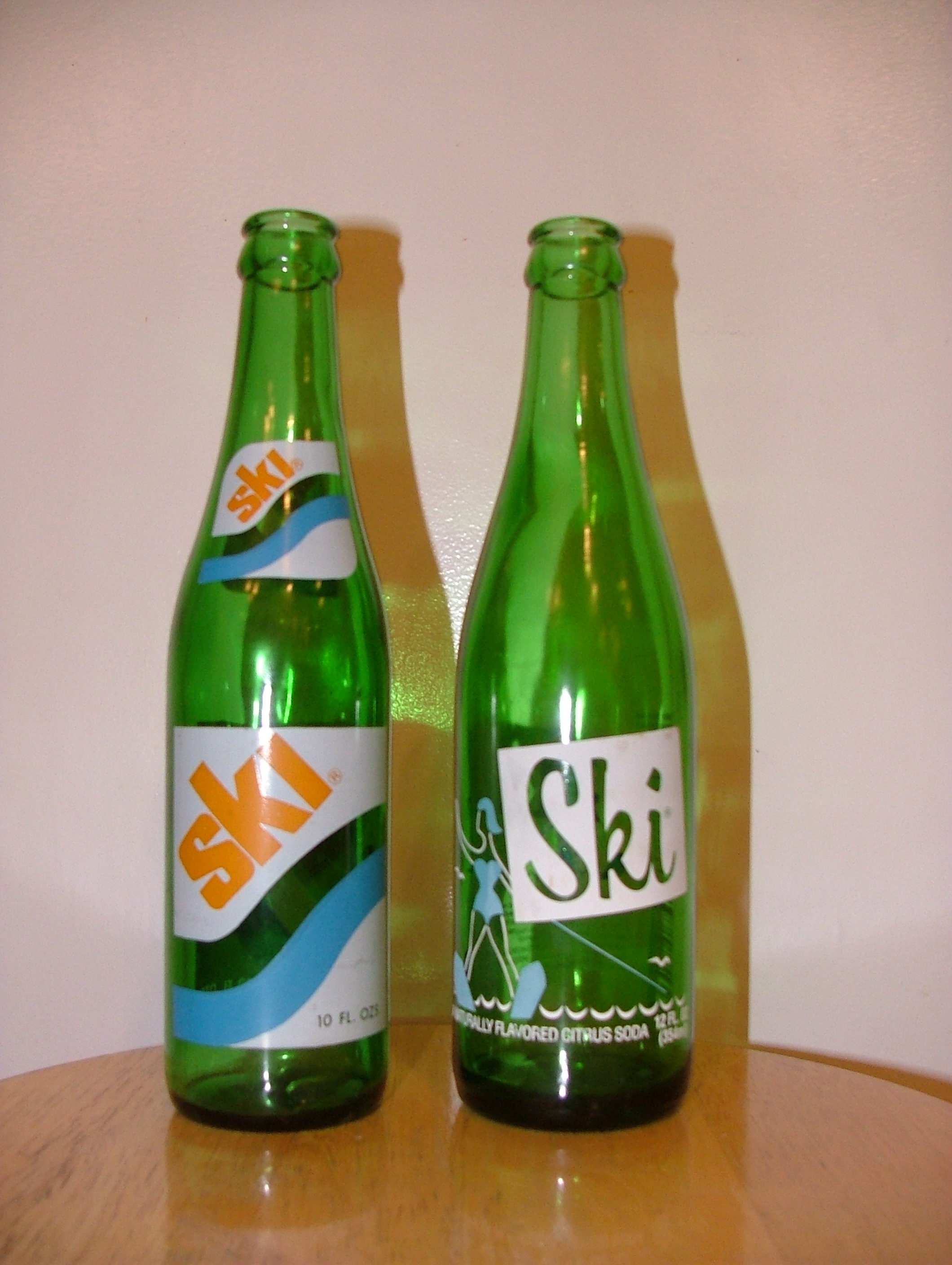 Comparison of 12 ounce and 10 ounce Ski bottles